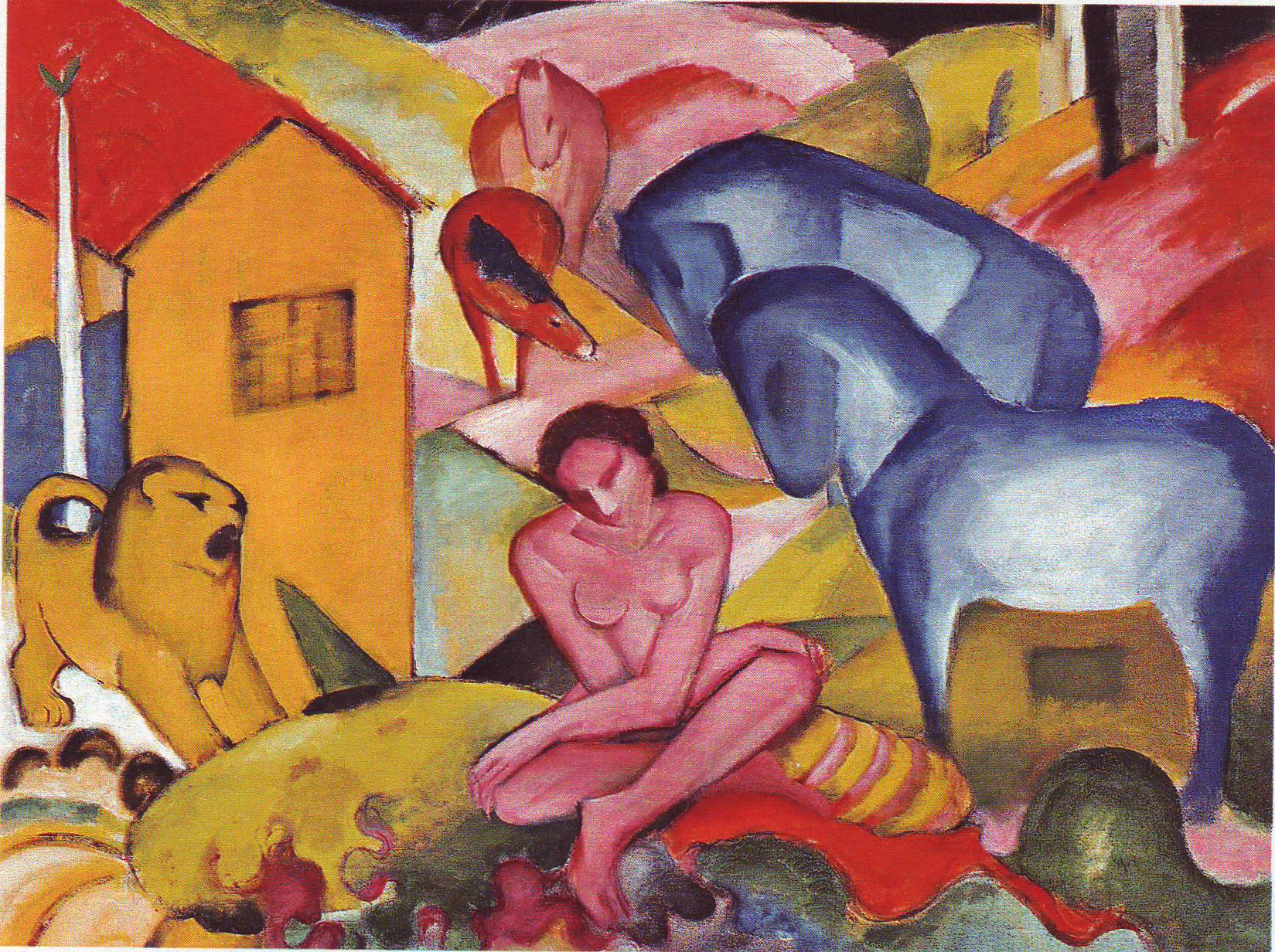 The dream